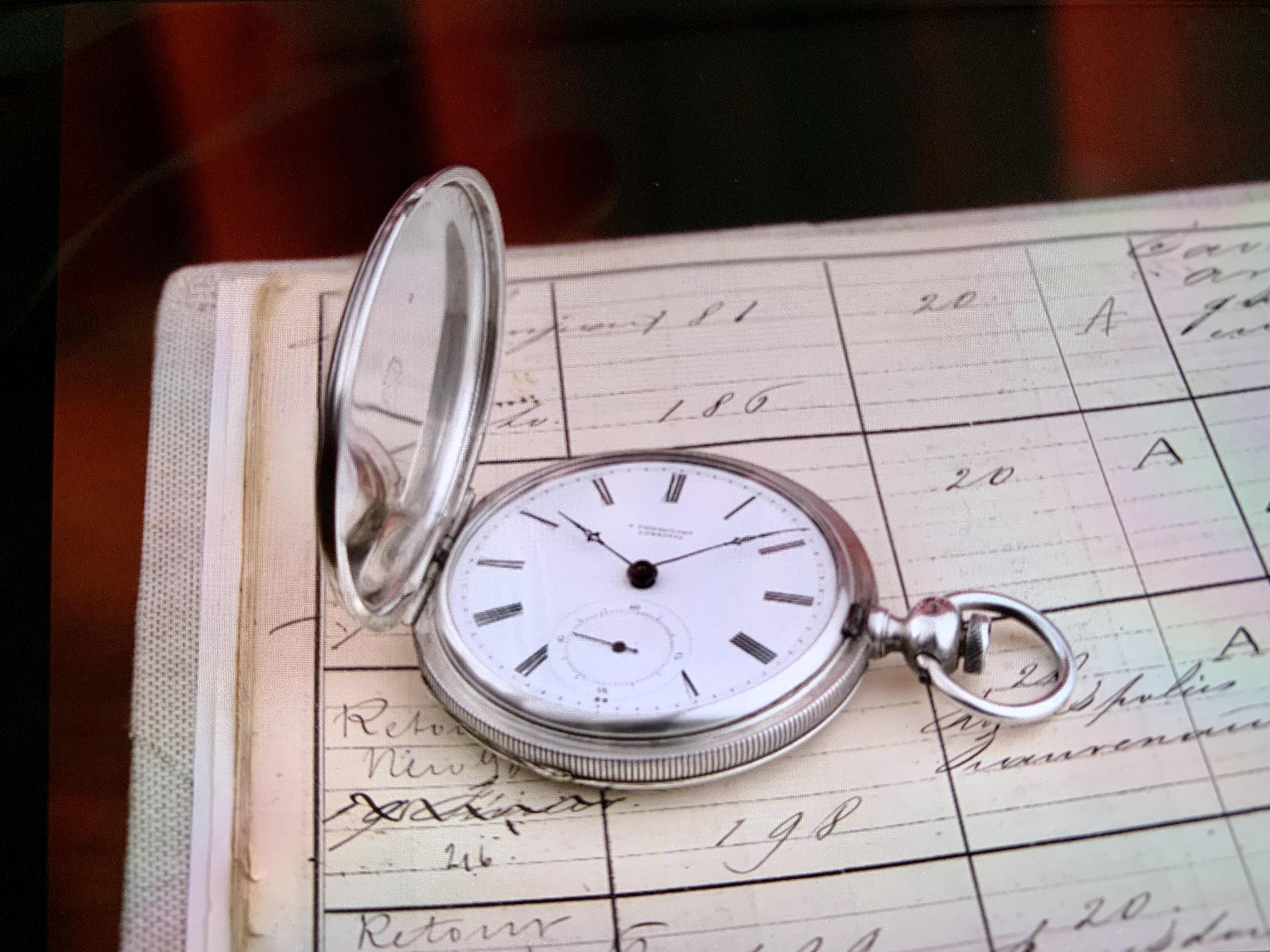 Longines 183